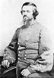 General George Gibbs Dibrell (1820-1888)